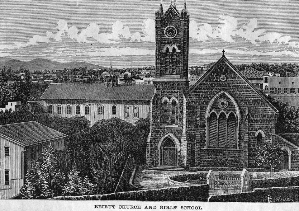 Beirut Church and Girls’ School